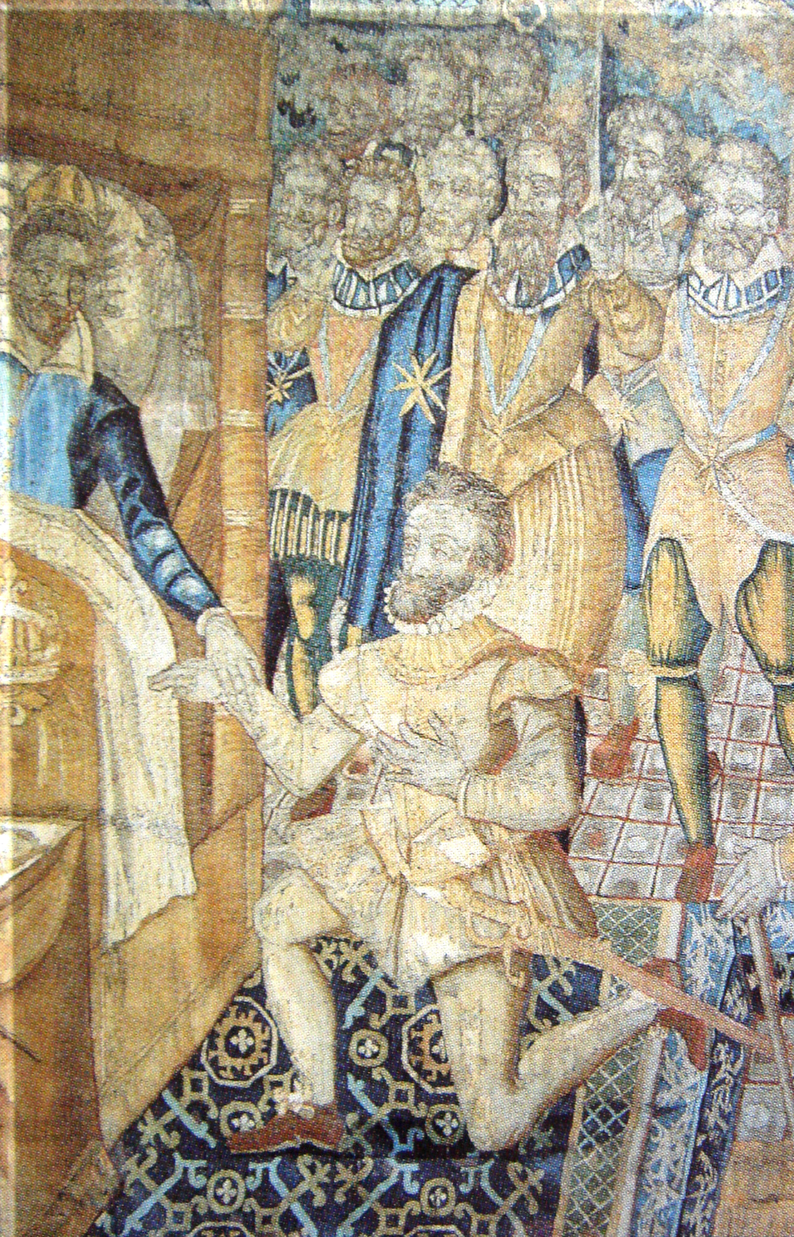 Henry_III_on_his_deathbed_designating_Henri_de_Navarre_as_his_successor.